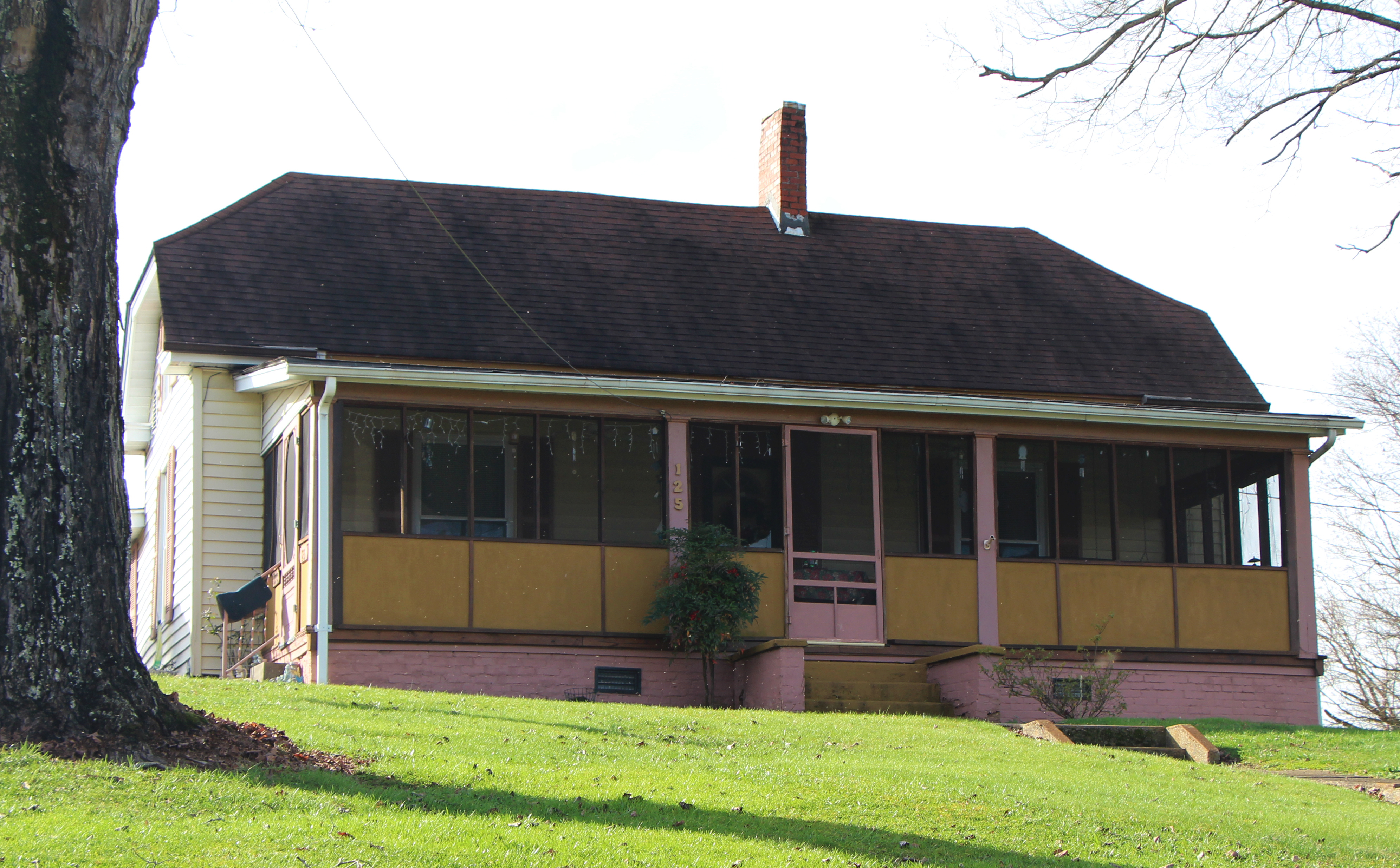 Residence, 125 Church St., Bulls Gap, TN